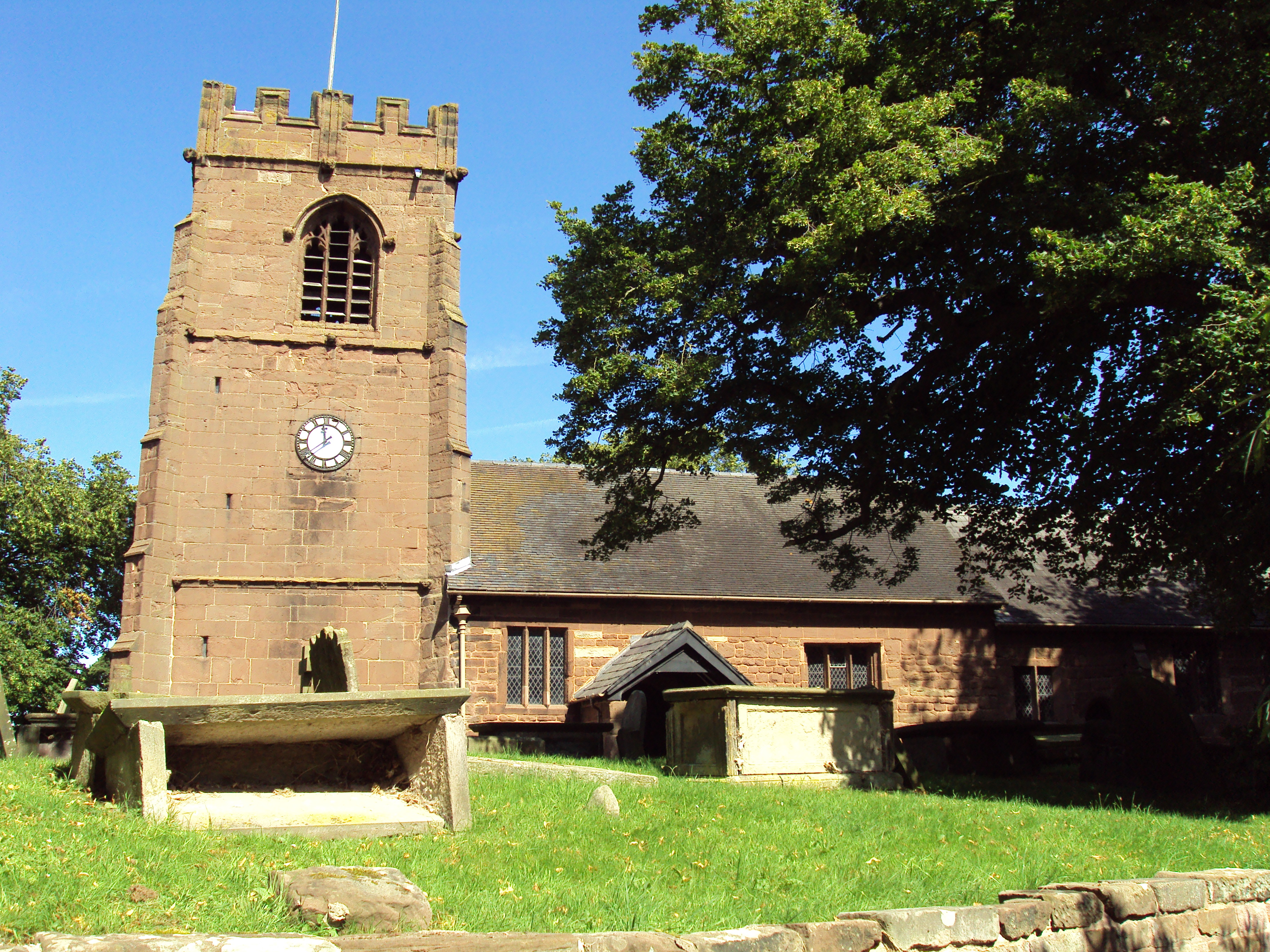 St Michael's church, Shotwick, Wirral, Cheshire, England as seen from Green Lane West footpath.